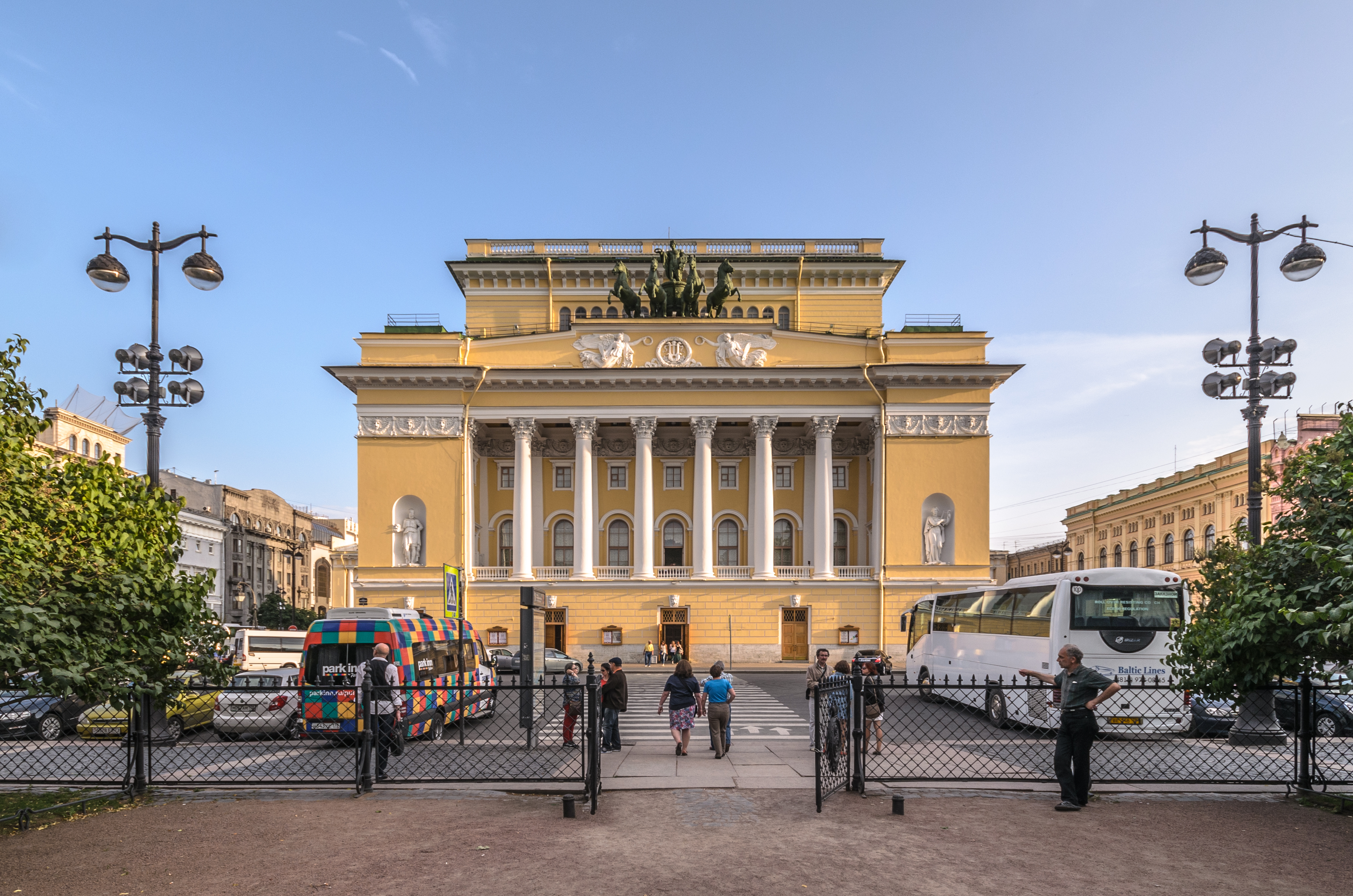 Alexandrinsky Theatre in Saint Petersburg